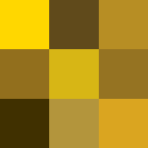 Shades of the color gold